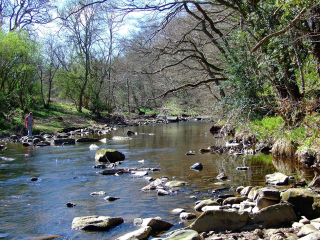 River Derwent Spring morning with rocks giving a lead into the focal point, with muted reflections giving a sense of tranquility.